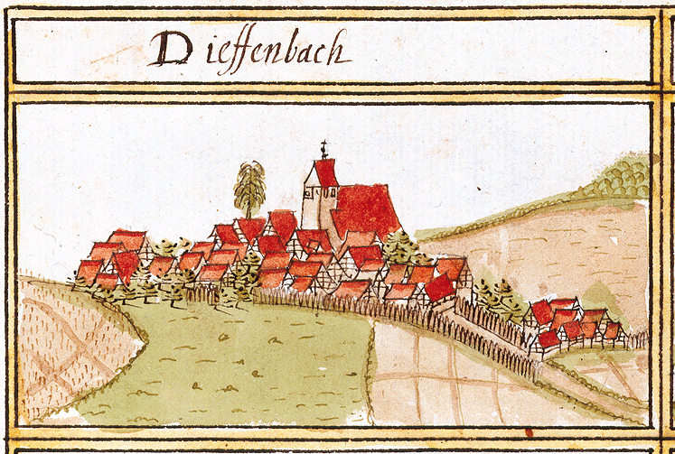 View of Diefenbach, Sternenfels, from the forest register books created by Andreas Kieser